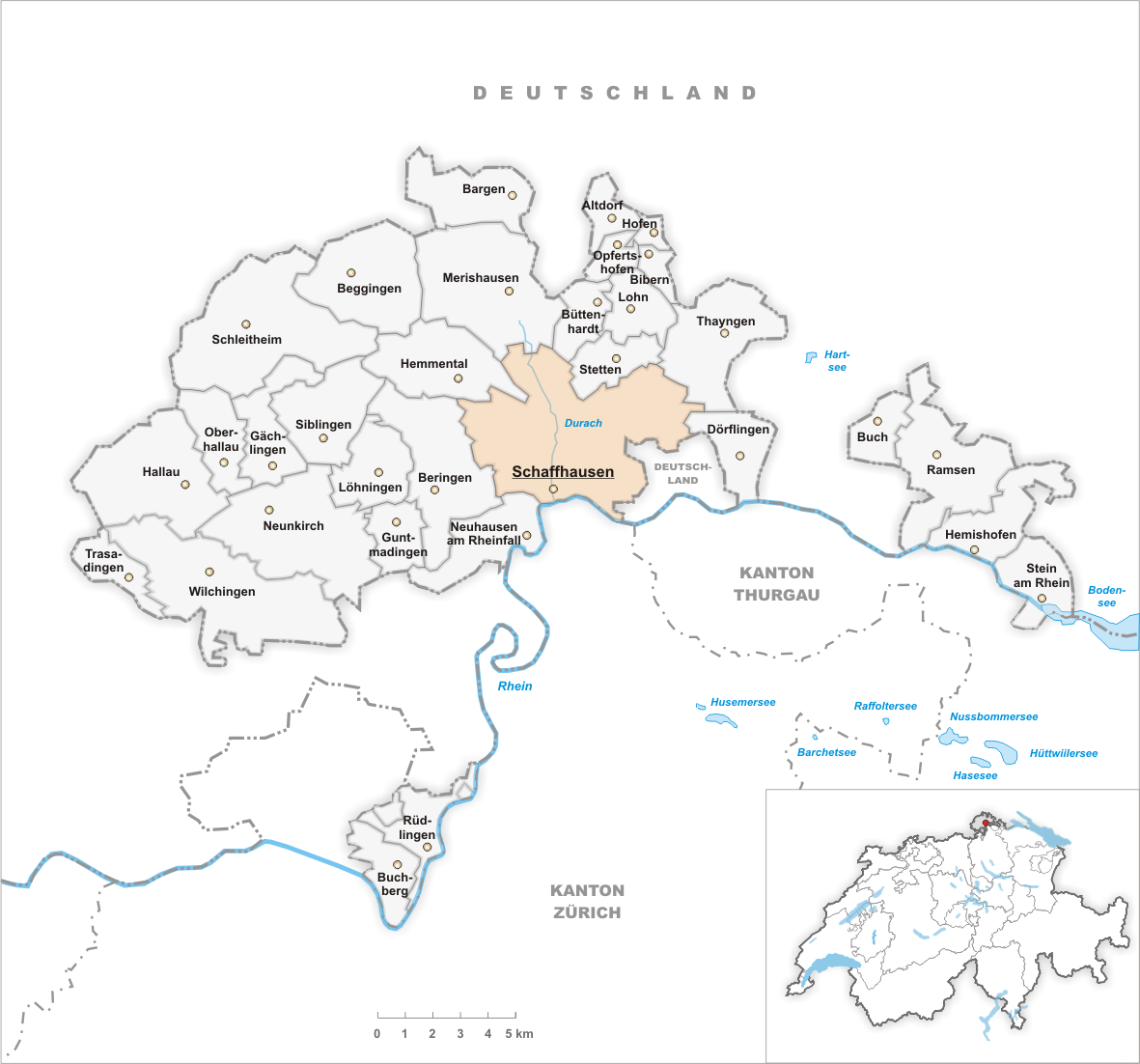 Municipality Schaffhausen